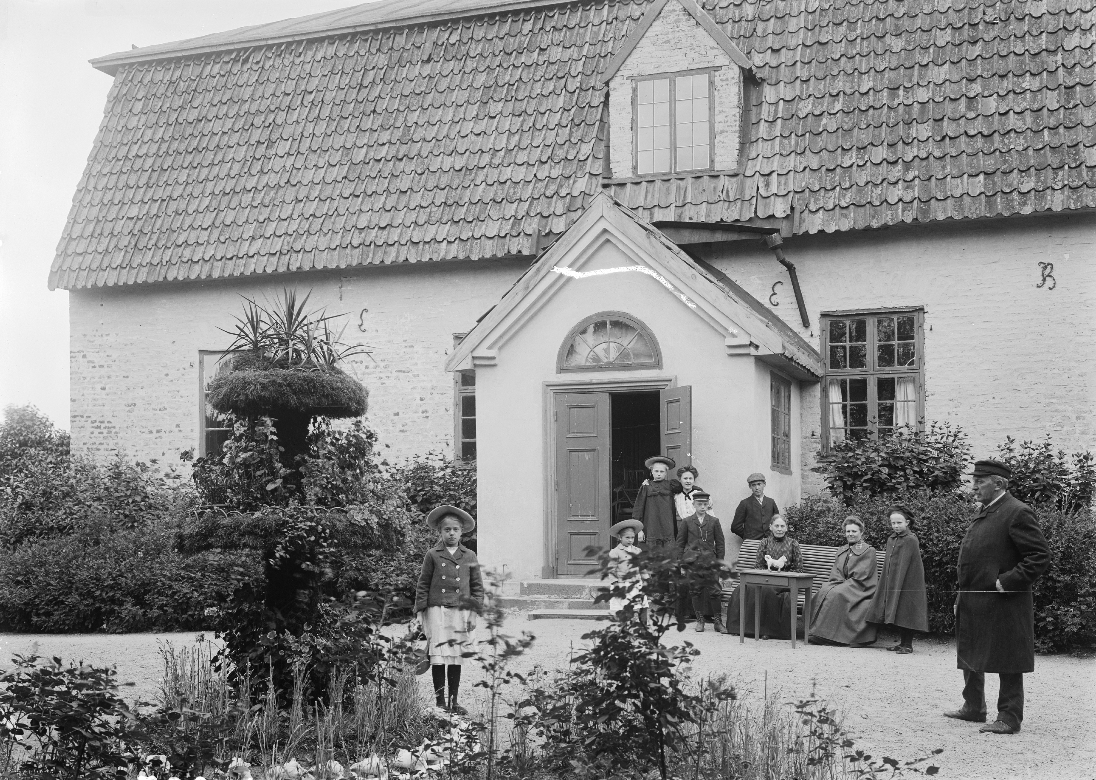 Lapila Manor in Naantali, Finland.